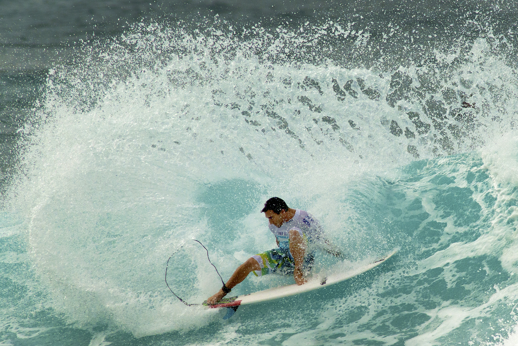 Joel Parkinson carves a Bonzai Pipeline during the 30th Anniversary Vans Triple Crown of Surfing Billabong Pipe Masters event Dec. 9, 2012, at the North Shore of Oahu, Hawaii. Every year from mid-November to mid-December, service members stationed in Hawaii can witness the professional big-wave surfers compete at a series of world famous location along the North Shore. Parkinson, of Australia, is the Association of Surfing Professionals' number-one ranked surfer and about to claim his first world championship.